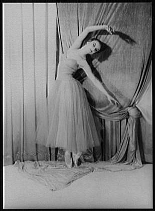 Portrait of Violette Verdy, in Serenade, taken by Carl Van Vechten, photographer.